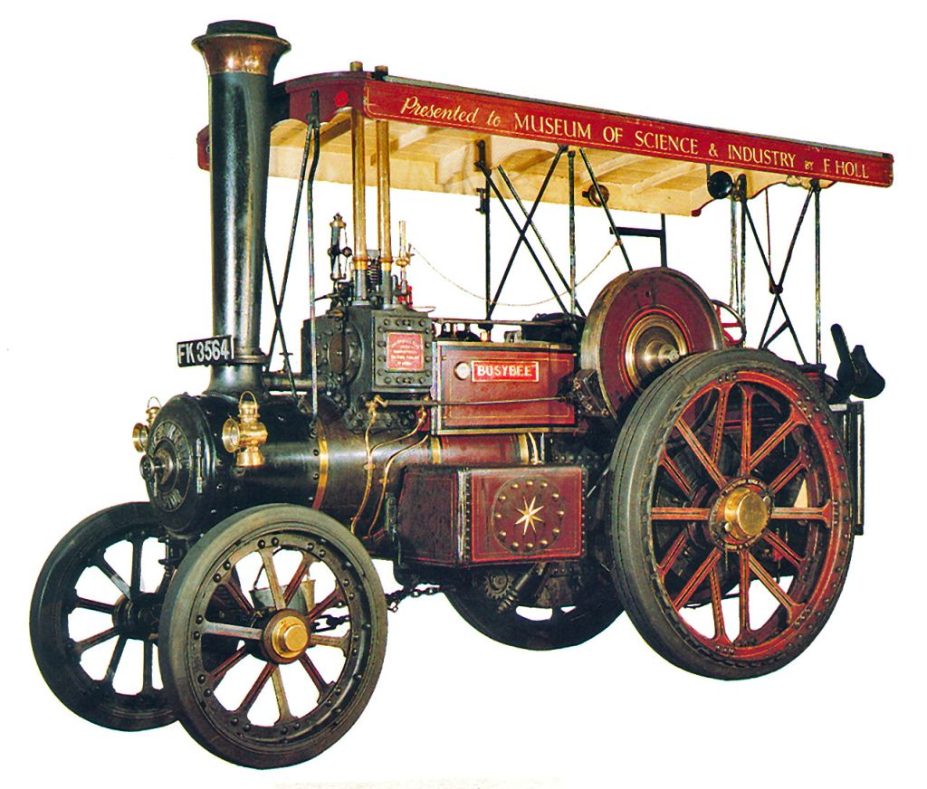 Burrell 'Busy Bee' Steam Tractor. 5 Ton Type Steam Tractor. ' Busy Bee' 2 smalls at the front and two large at the rear. Generally painted dark red with yellow, orange and black trim. Editing undertaken: Median, Auto Levels, Auto Contrast